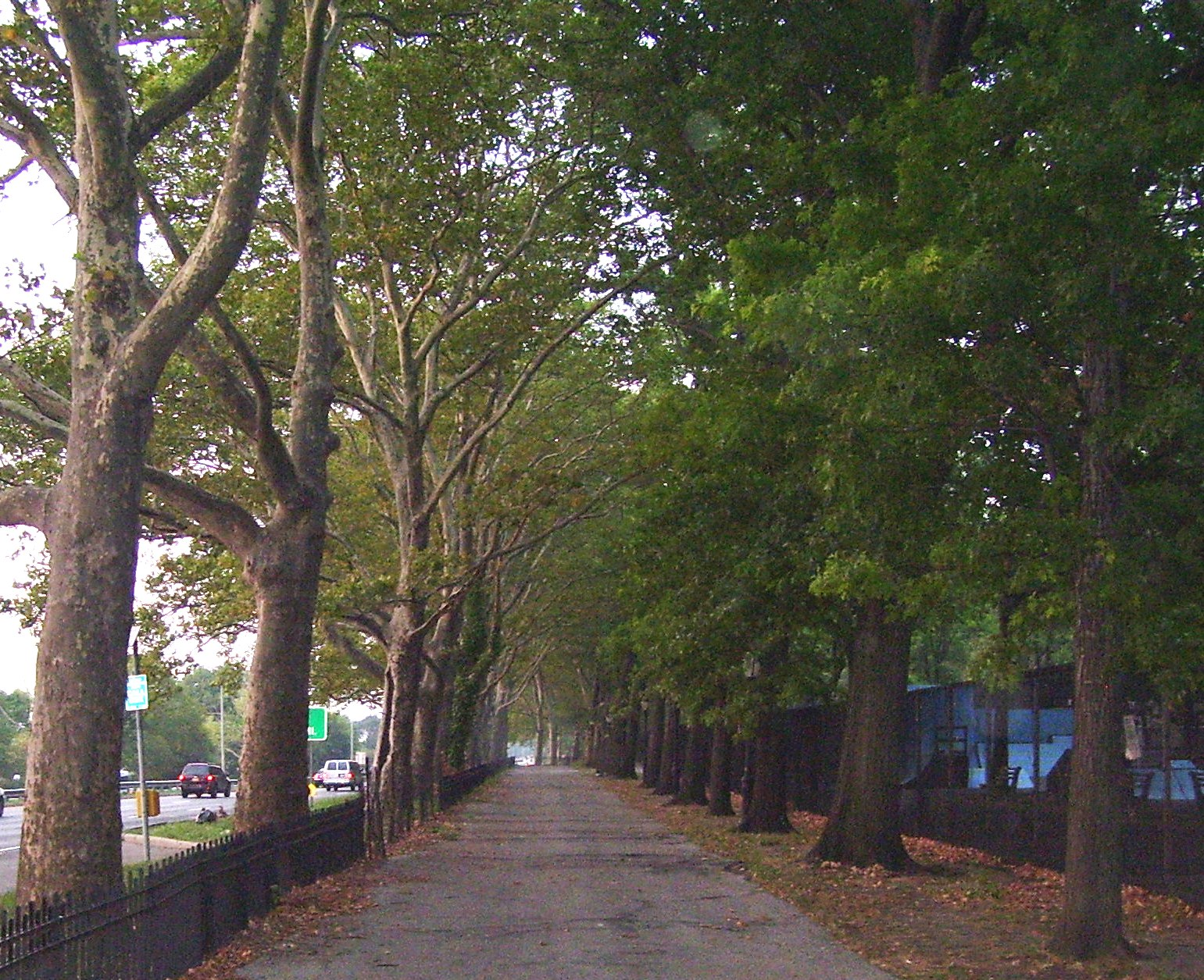 A walkway in Riverside Park in Manhattan, New York City, next to the West Side Highway at around 108th Street.